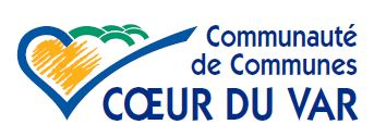 Logotype of "Coeur du Var"